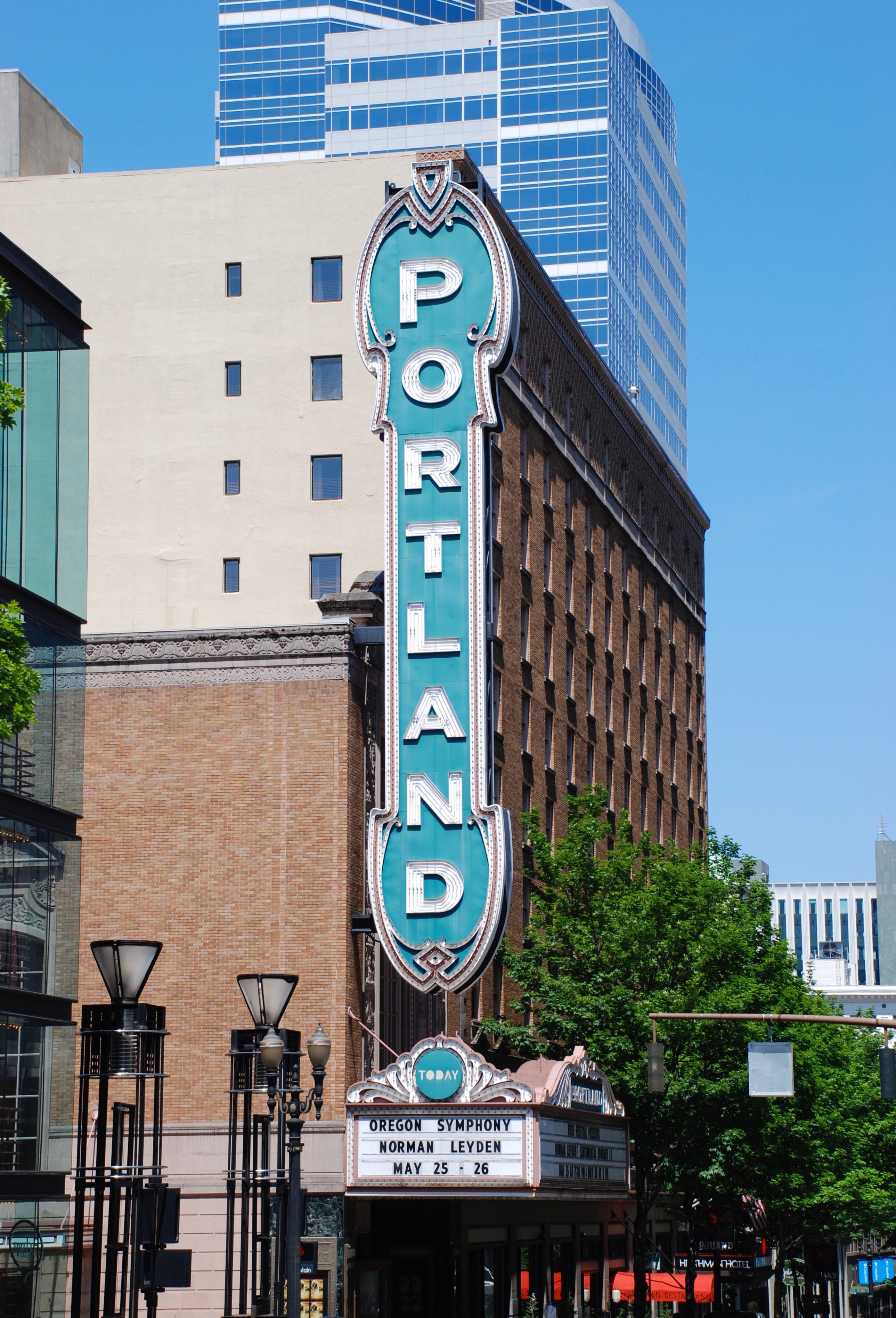 The Arlene Schnitzer Concert Hall's "Portland" sign, a 1984-built replica of the previous sign, which read "Paramount", in Portland, Oregon. This view is from the south.